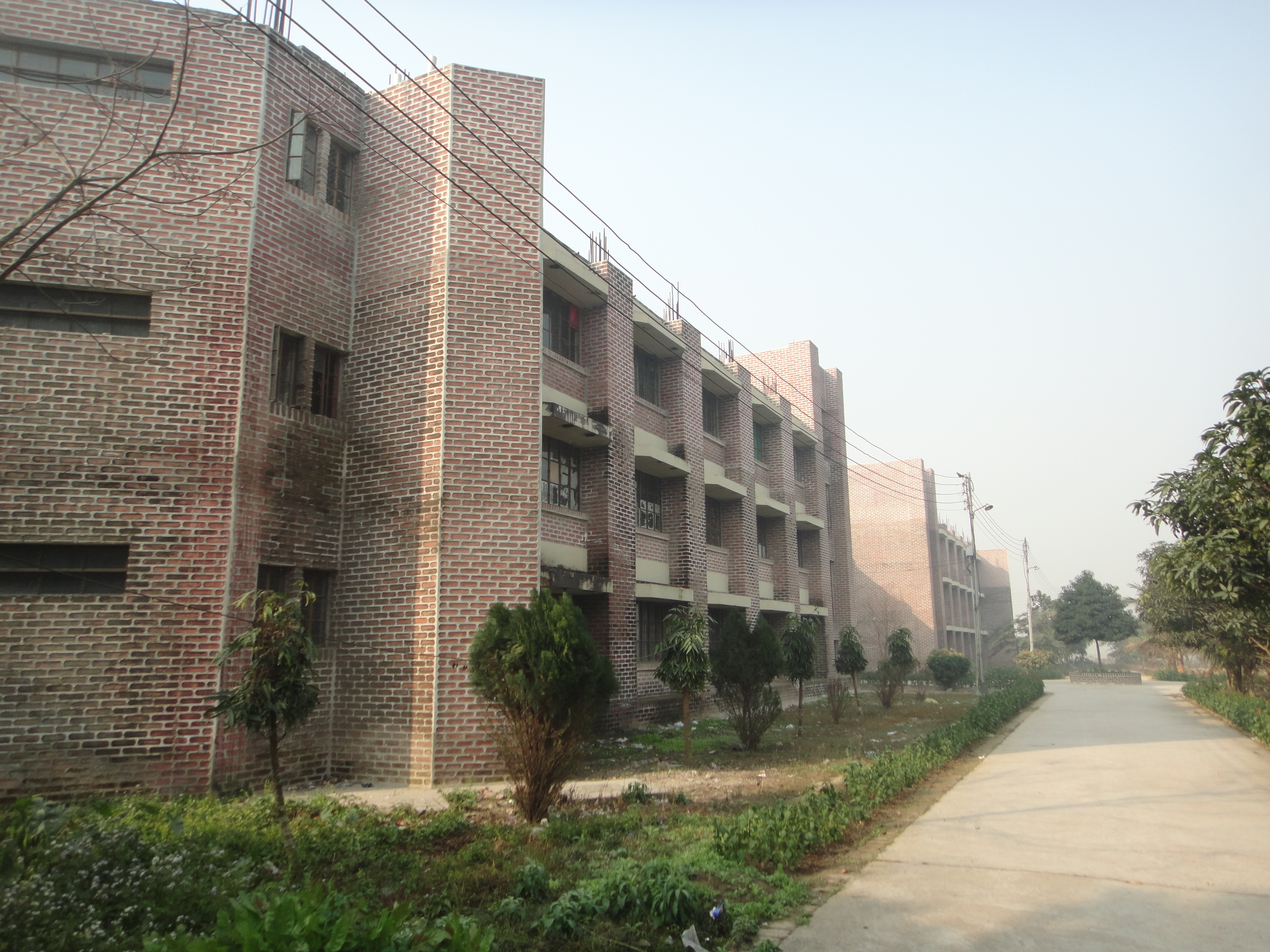 Place: Dinajpur, Bangladesh Editor: Hafizul Islam